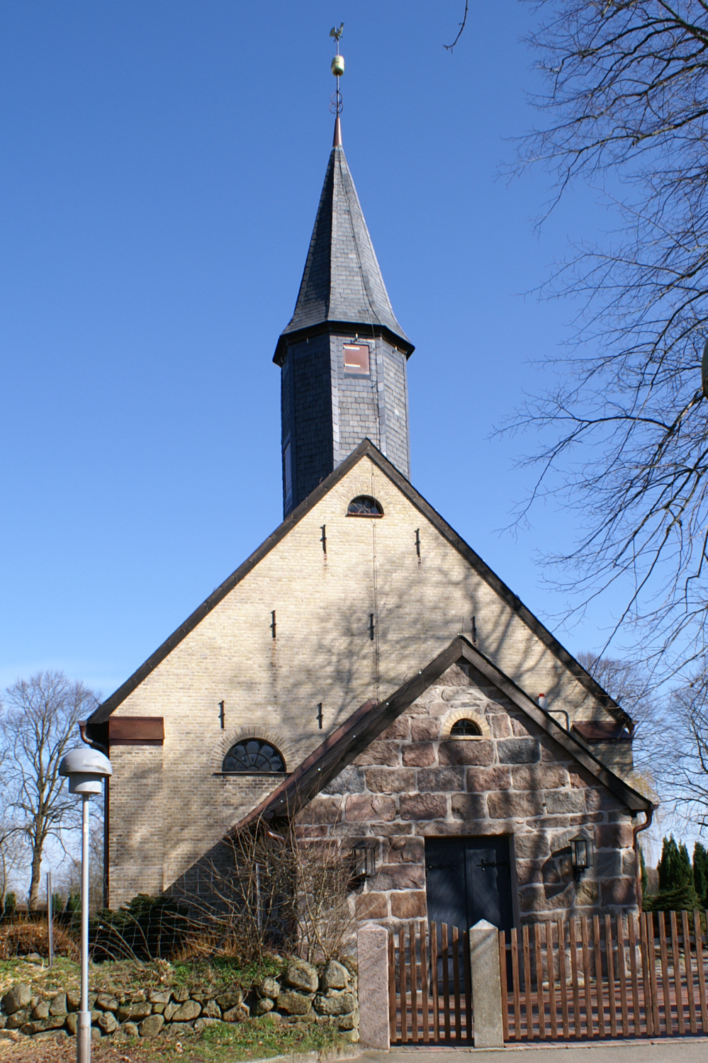 St. Andrew's Church in Haddeby near Schleswig.